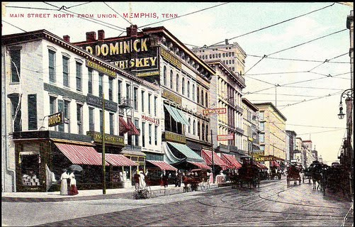 Picture of D. Canale Storefront in Memphis, TN.